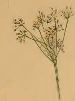 Stainton’s Natural History of the Tineina (1855–1873): Depressaria pimpinellae a larval web in an inflorescence of Pimpinella saxifraga